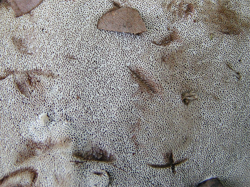 Lingzhi or Reishi